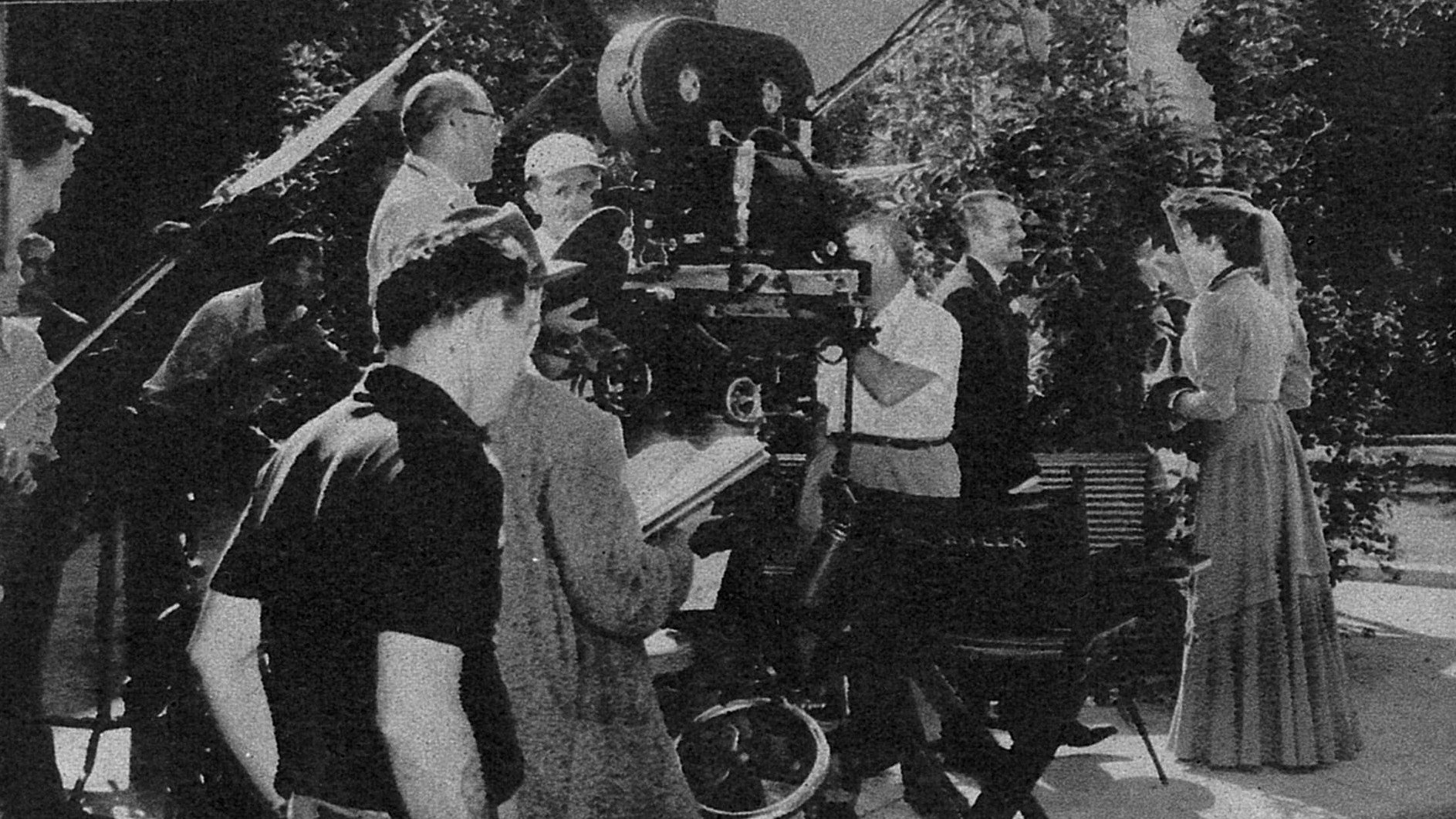 Eiga No Tomo (映画之友) February 1951 page 65 featuring a behind the scenes shot from the movie Carrie (キャリイ) (1952).